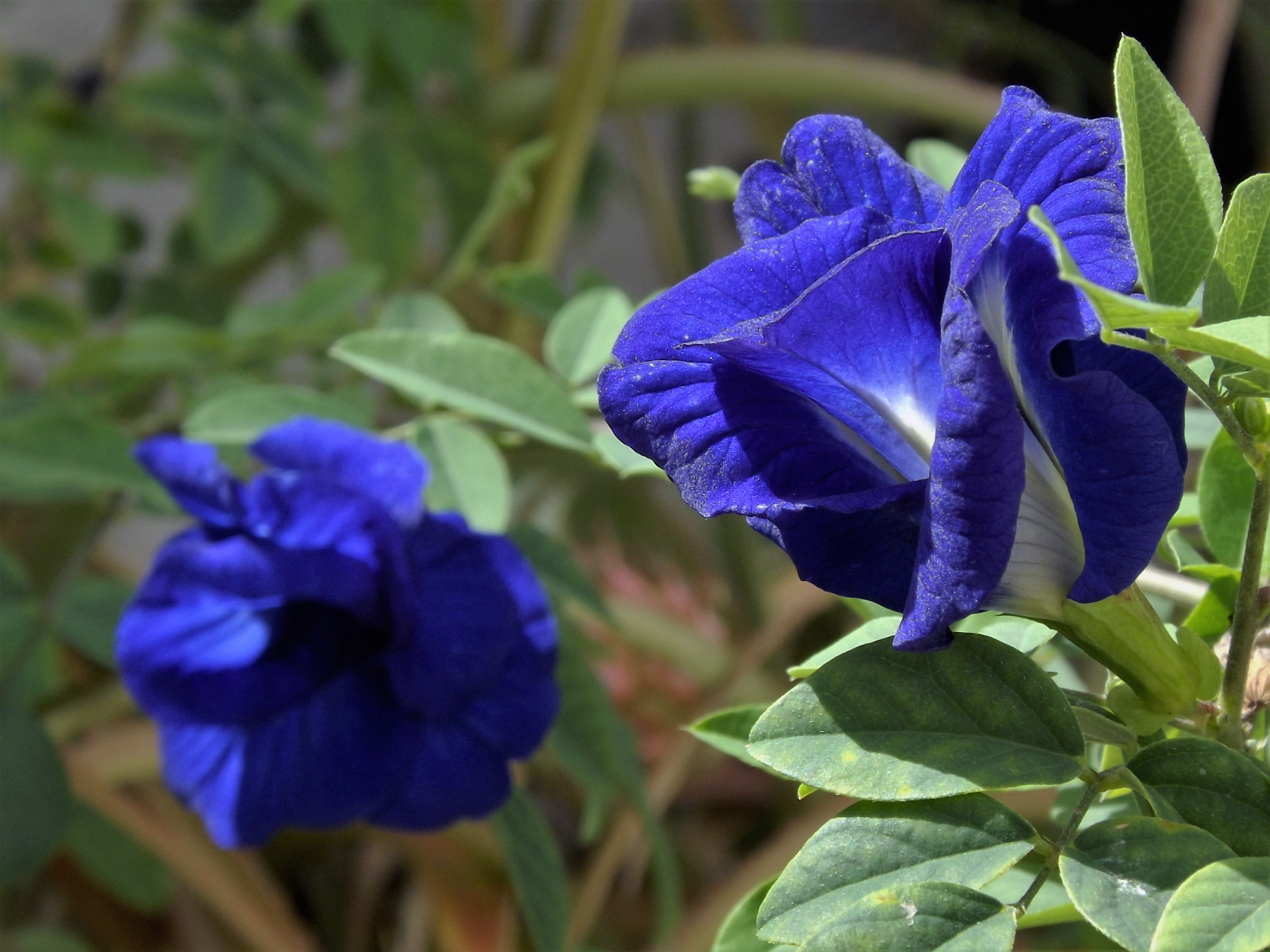 Bright and colorful exuberant blue Clitoria a ternatea